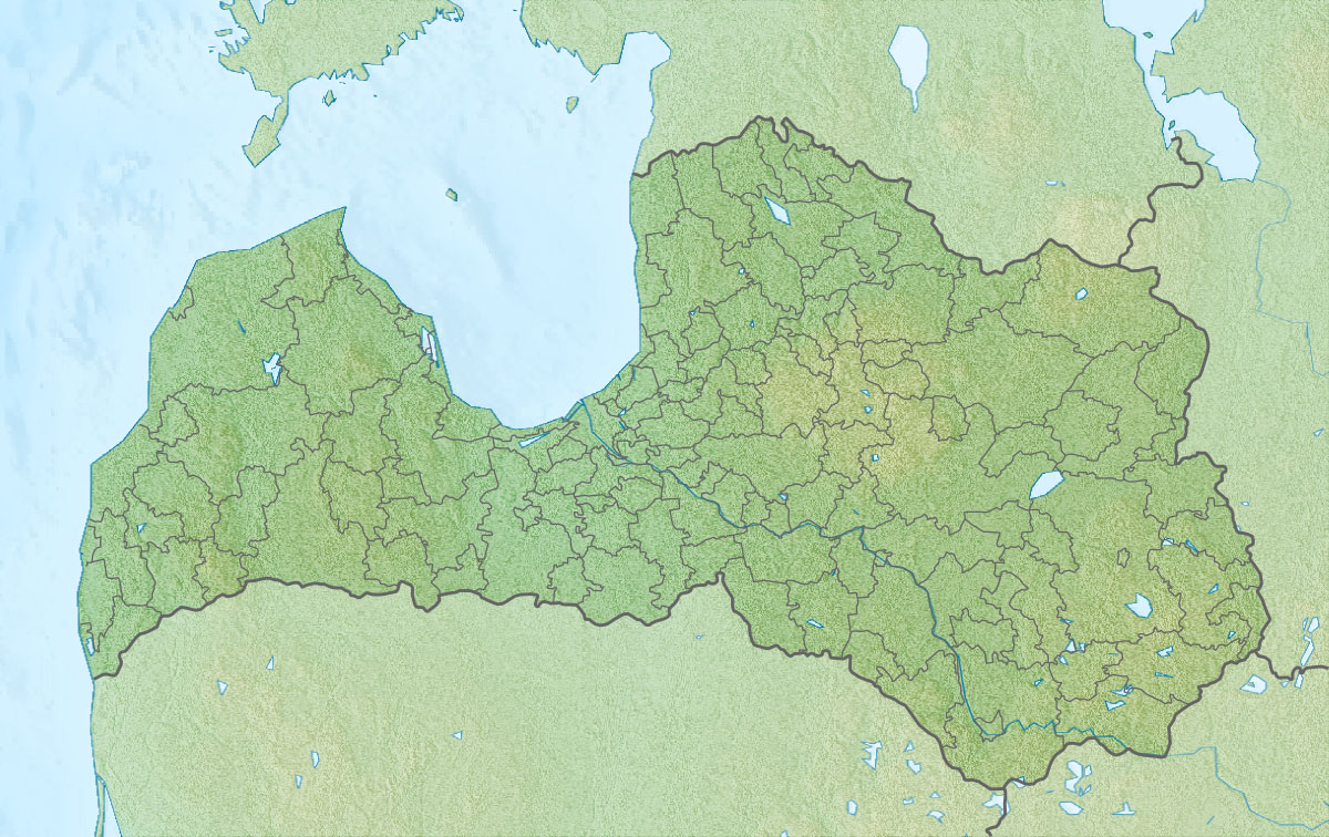 Location map of Latvia Equirectangular projection, N/S stretching 170 %. Geographic limits of the map: N: 58.5° N S: 55.5° N W: 20.5° E E: 28.6° E